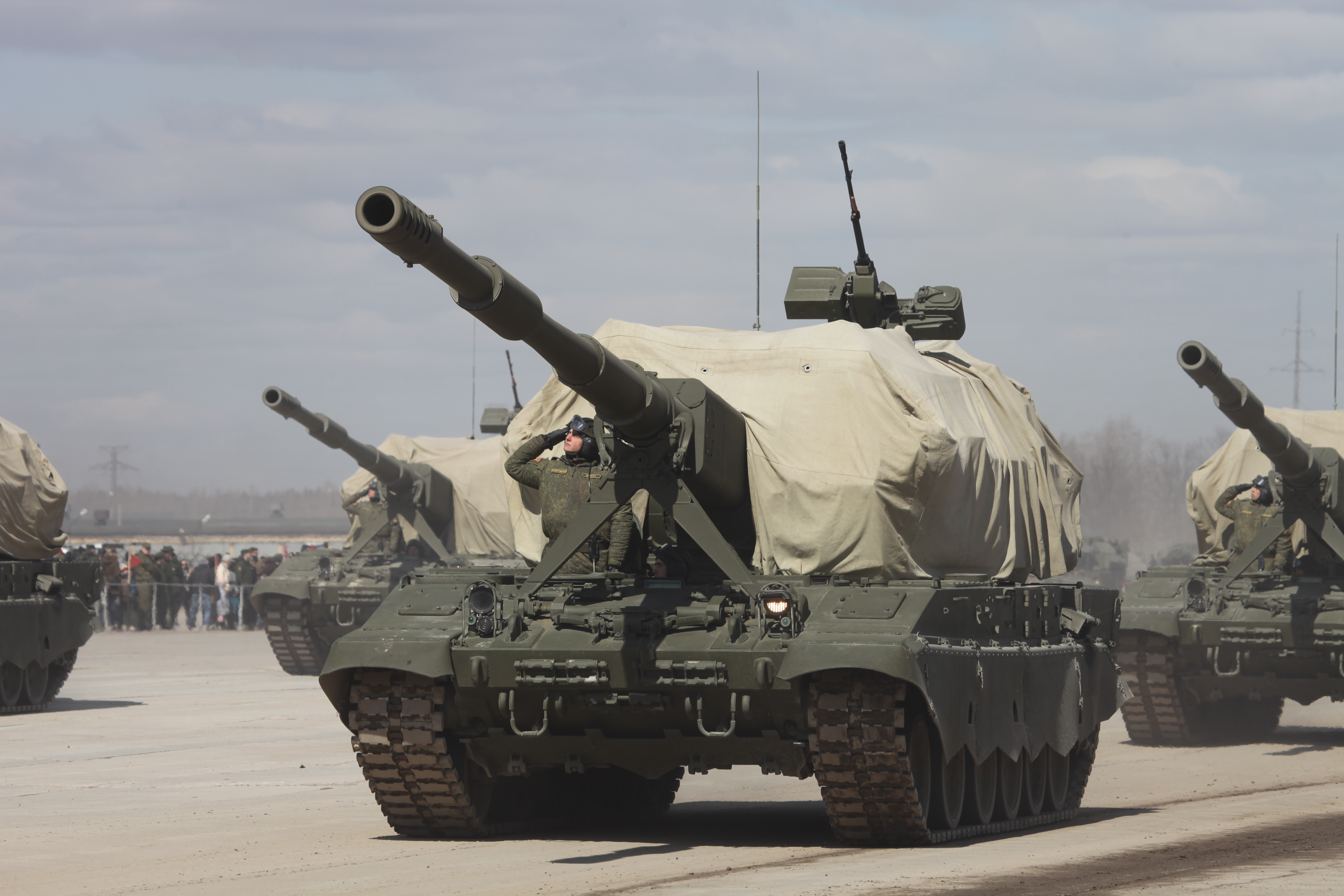 Self-propelled howitzer 2S35 "Koalitsia-SV" on repetition of Victory Day at Alabino proving grounds (during the first open rehearsal in Alabino).